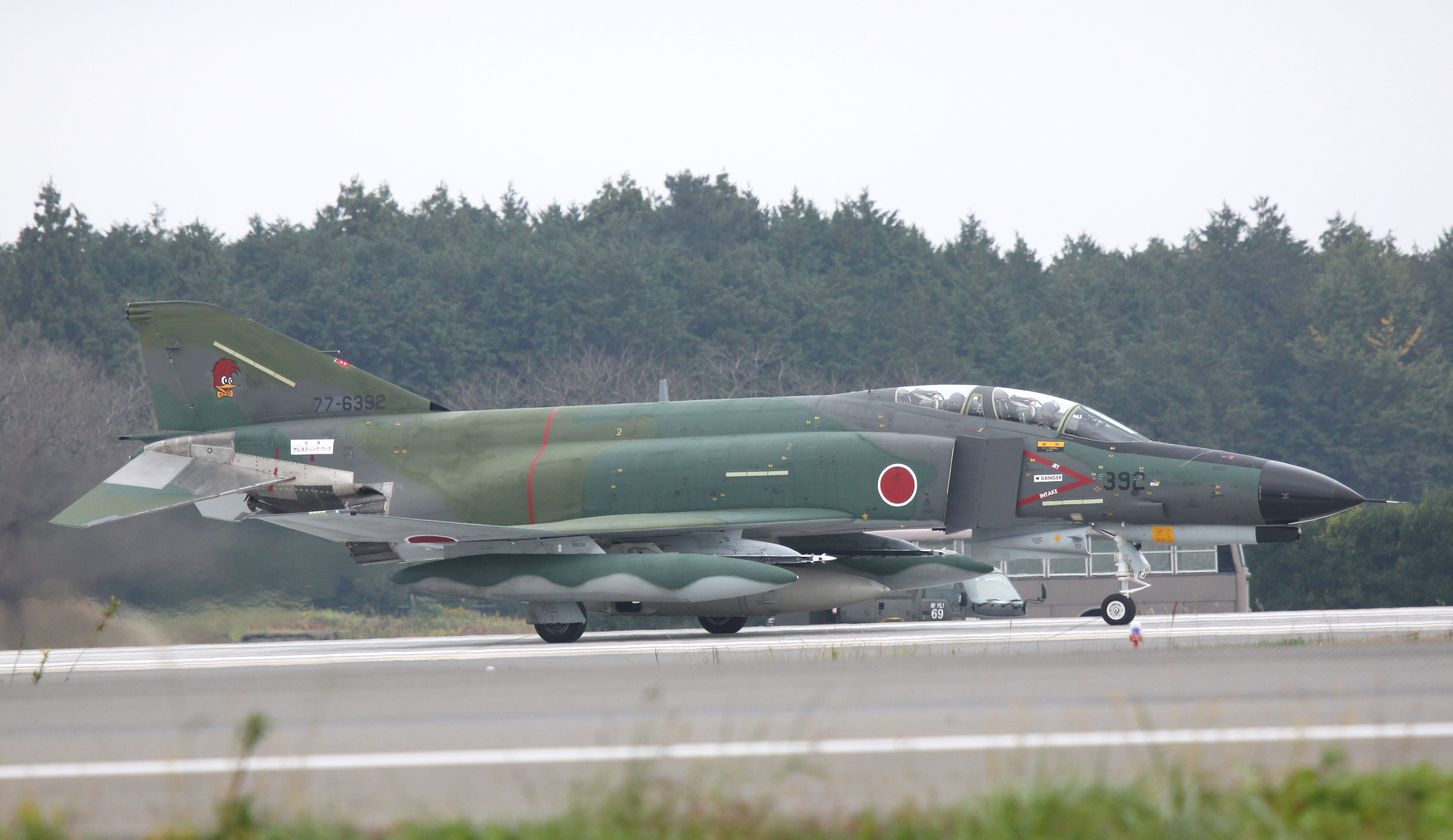 Ah ha ha ha ha! The woody-woodpecker song!